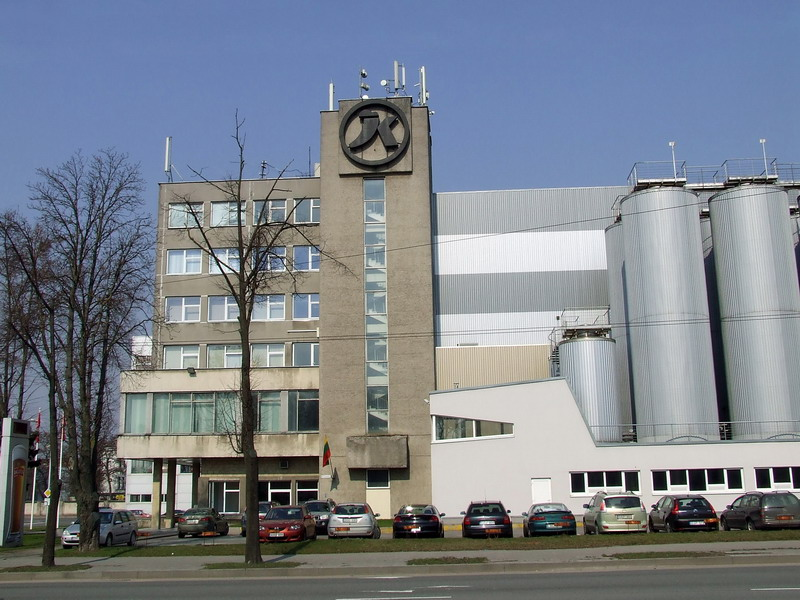 AB Volfas Engelman.